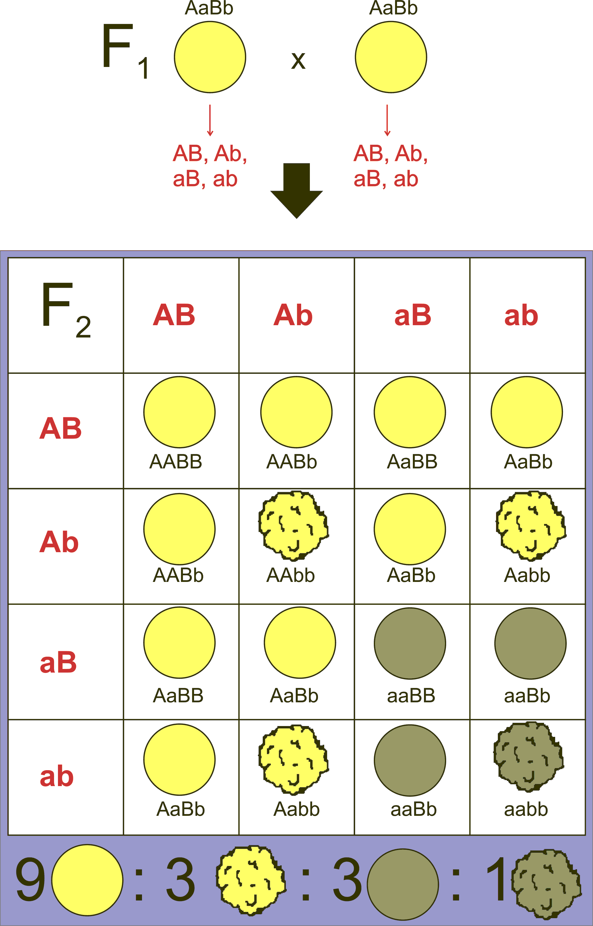 Mendel's law of independent assortment F1 and F2